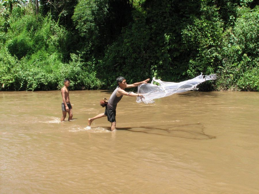 An Akha fishing the traditional way with a net in a river in nortehrn Thailand.